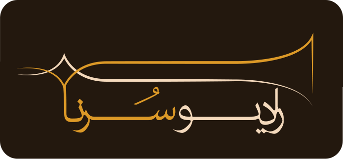 Radio Sorna